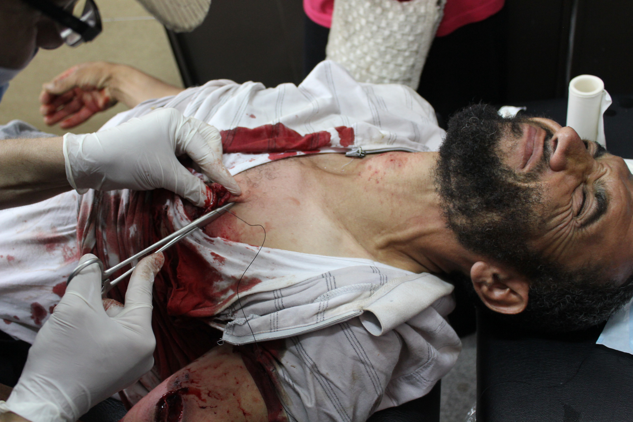 Rabaa field hospital; published description in What really happened on the day more than 900 people died in Egypt - The story of a massacre, GlobalPost, 26 February 2014, by Louisa Loveluck, archived from the original on 18 July 2014: "Asmaa Shehata photographs medical workers sewing up the wound of a Morsi supporter in Rabaa's field hospital. Egypt's interior ministry initially claimed that no live ammunition had been used in dispersing the protesters."